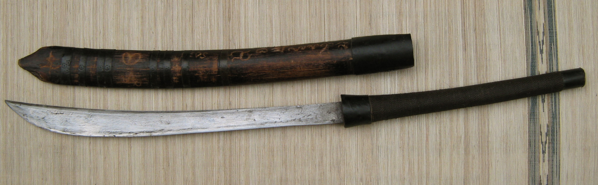 The above antique Filipino sword is unique. Its form and size is very similar to that of the Thai and Burmese dha sword. Aside from the unique form factor, the other interesting thing about the sword is the presence of baybayin scripts on its scabbard. Baybayin is the ancient precolonial writing alphabet of Filipinos. The close-up shot of said scripts on the scabbard is here. Up to now, certain ethnic people of the Philippines still use baybayin, like the mountain people of Mindoro Island. Given such, perhaps the sword originated therefrom. Overall length: 715 mm (28.1 inches); Blade length: 428 mm (16.9 inches); Maximum blade thickness: 7 mm (1/4 inch); Scabbard length: 490 mm (19.3 inches) Other uploaded materials by the same author are here: (a) Luzon weapons; (b) Visayan weapons; (c) Moro weapons; and (d) Lumad (non-Moro Mindanao) weapons